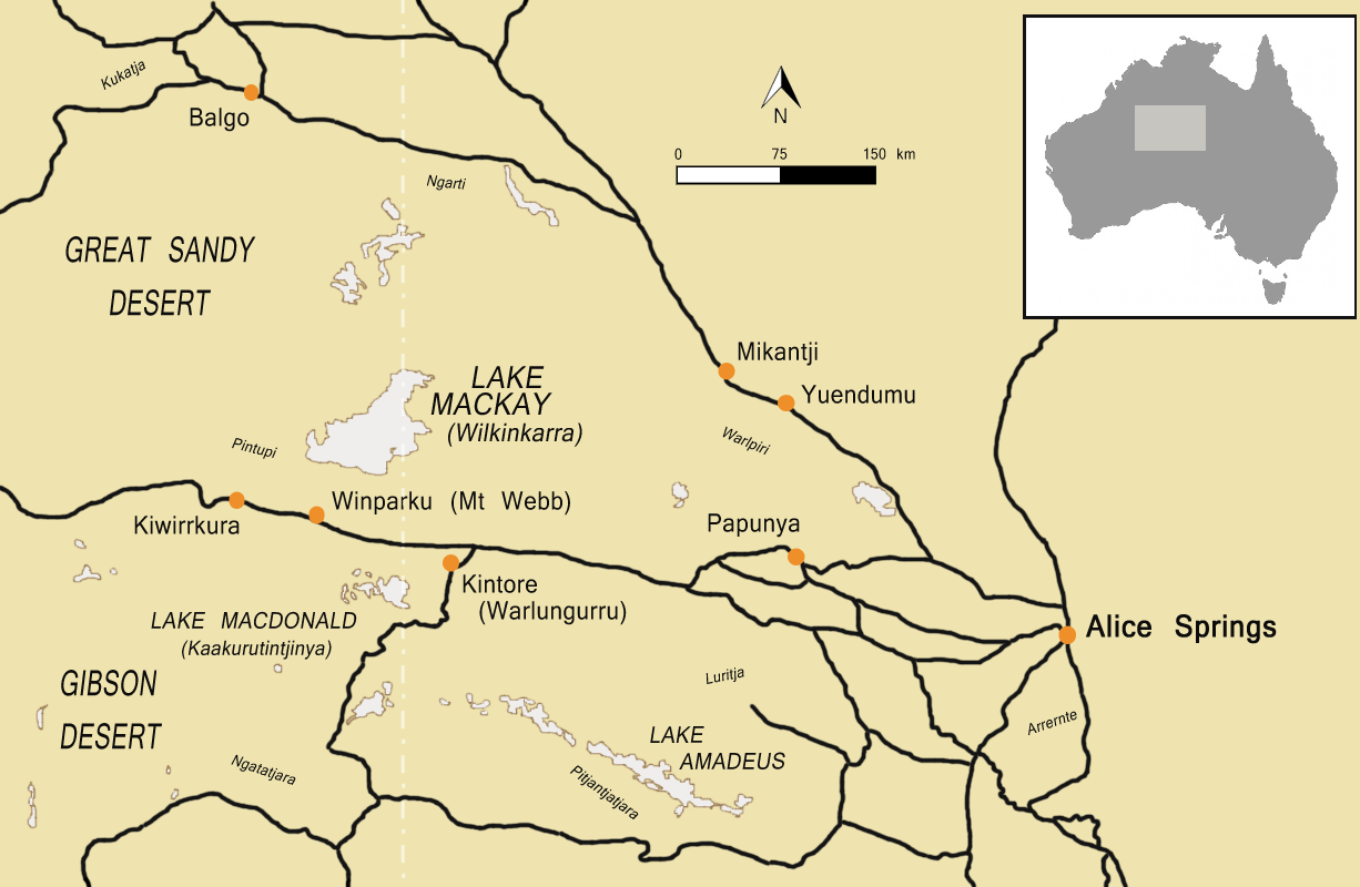 A map of the area west of Alice Springs as it was in the mid-1980s. Depicts the traditional area of the Pintupi people.